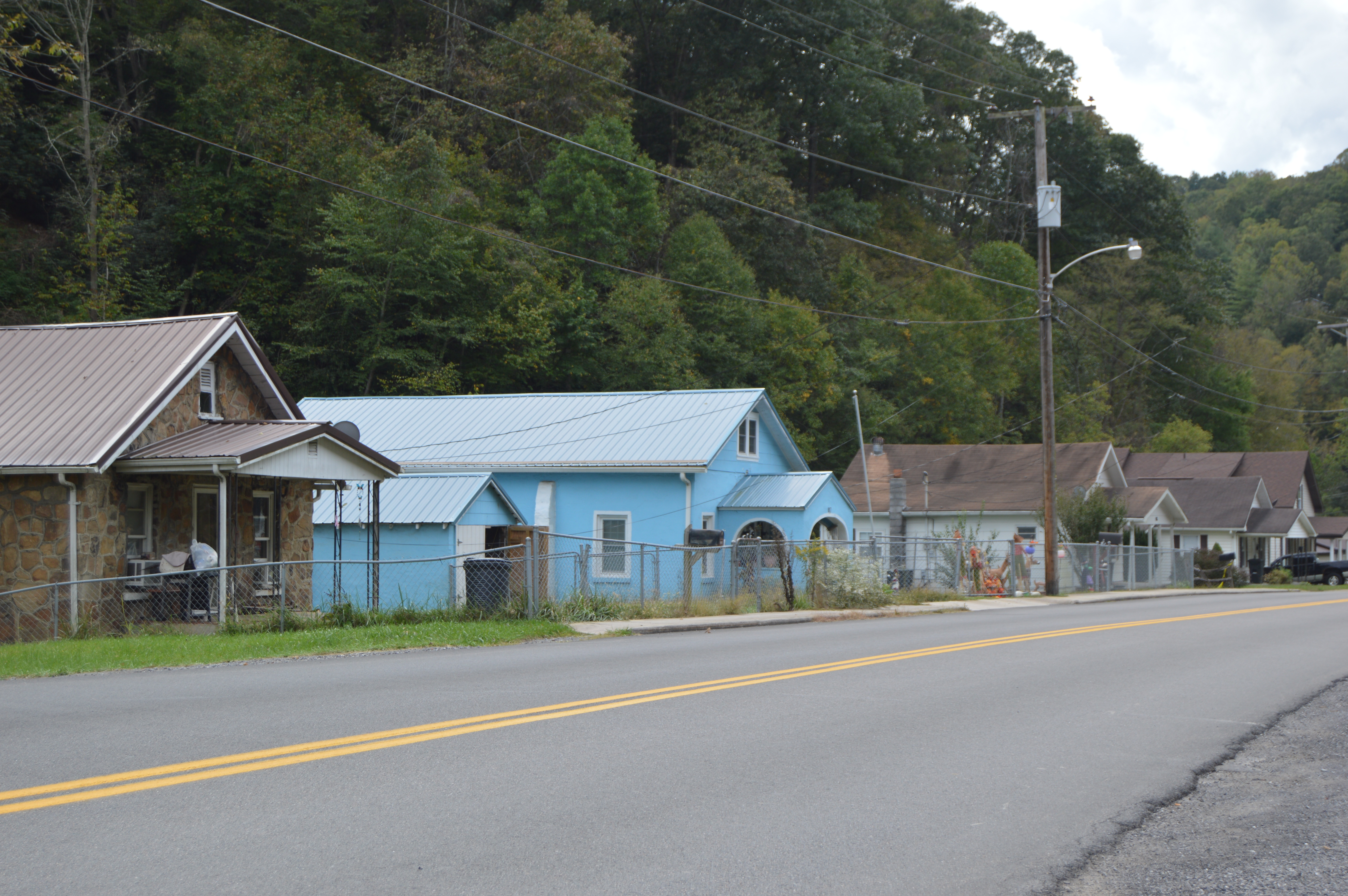 Houses on the southern side of Bigcreek Road (State Route 67) on the northern edge of Richlands, Virginia, United States.